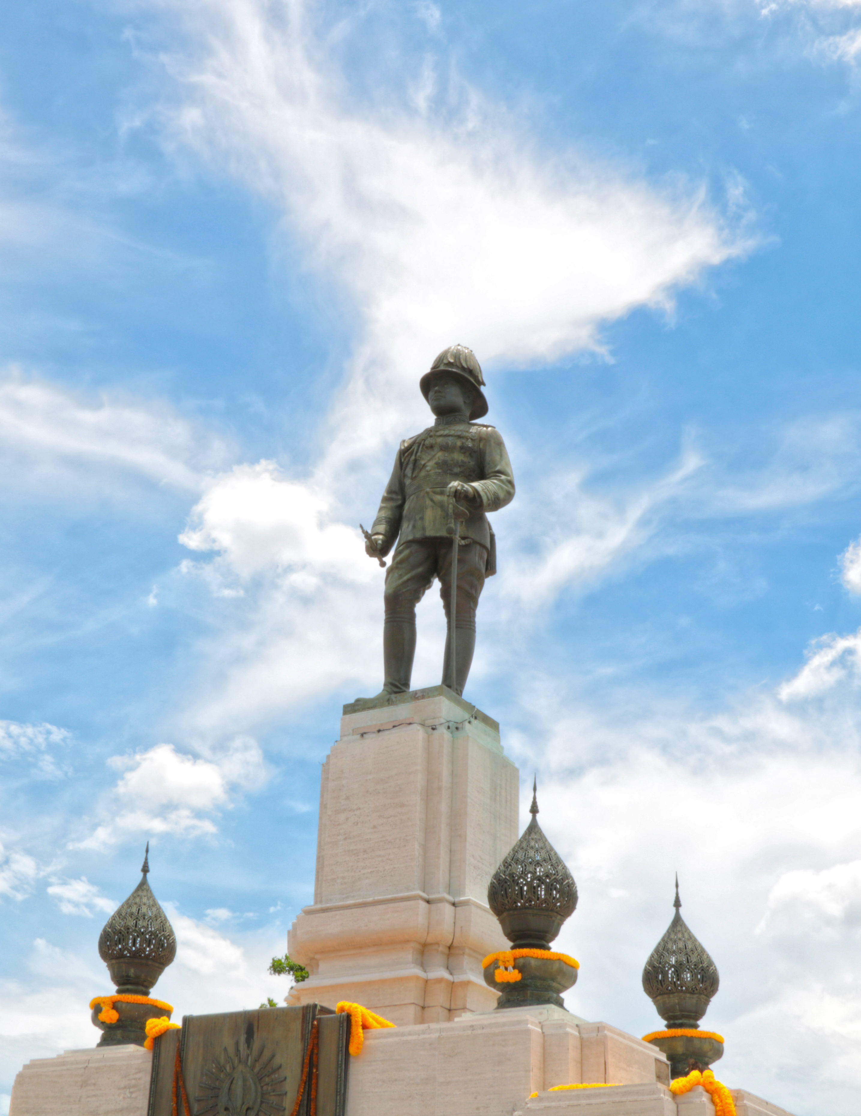 Statue of Rama VI at Lumphini Park.